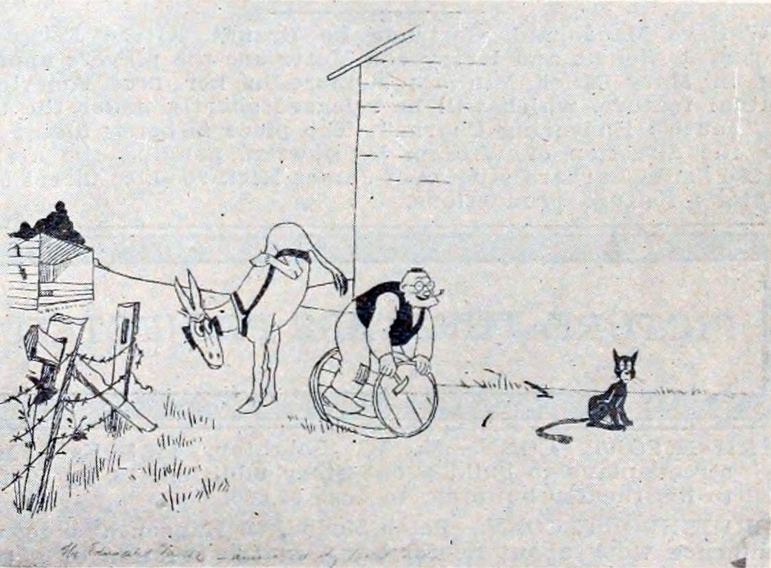 Illustration of a review in The Moving Picture World